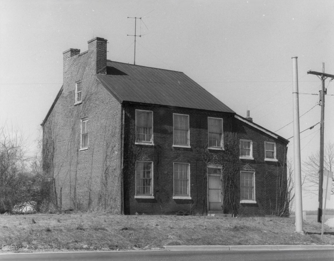 Starl House, near St. George's, Delaware. Demolished by 1992.